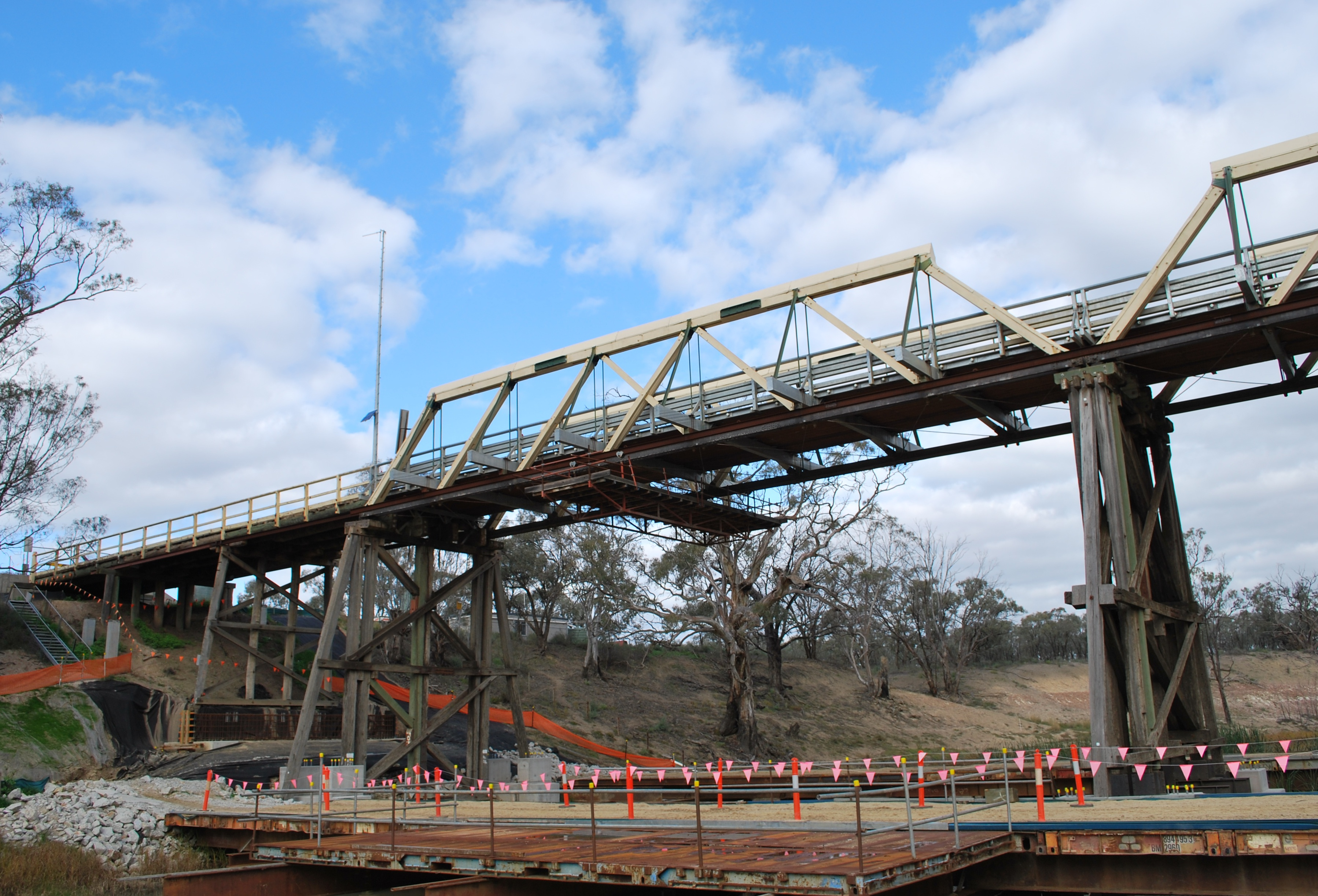 Coonamit Bridge, a Dare type timber truss bridge, crossing the Wakool River - undergoing repairs.